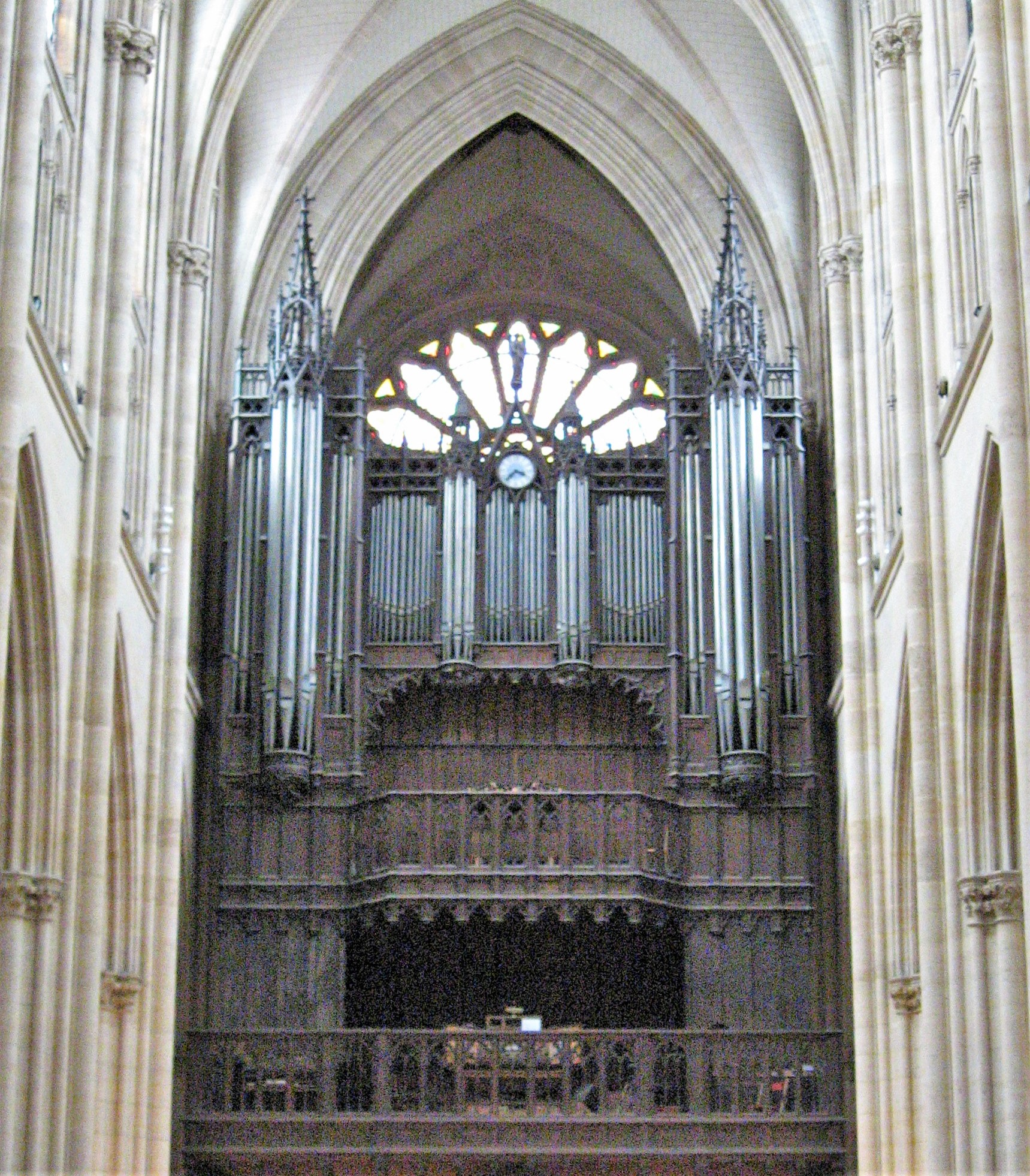 Organ of Sainte-Clotilde (Paris). Cavaillé-Coll 1859